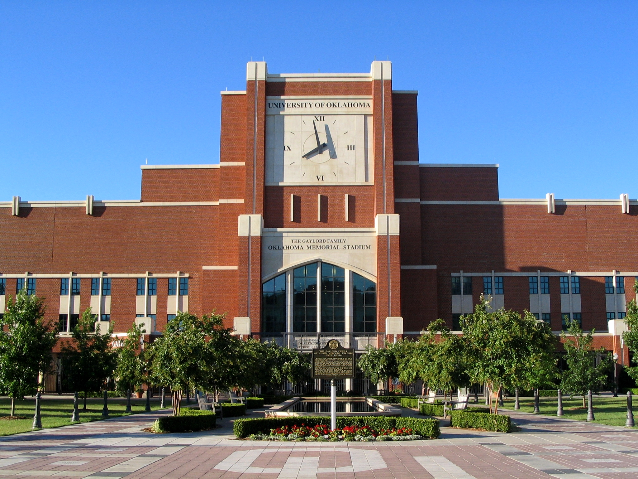 Picture of the front of Oklahoma Memorial Stadium in Norman, OK.